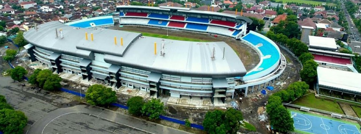 Post-renovation Mandala Krida Stadium in 2019.